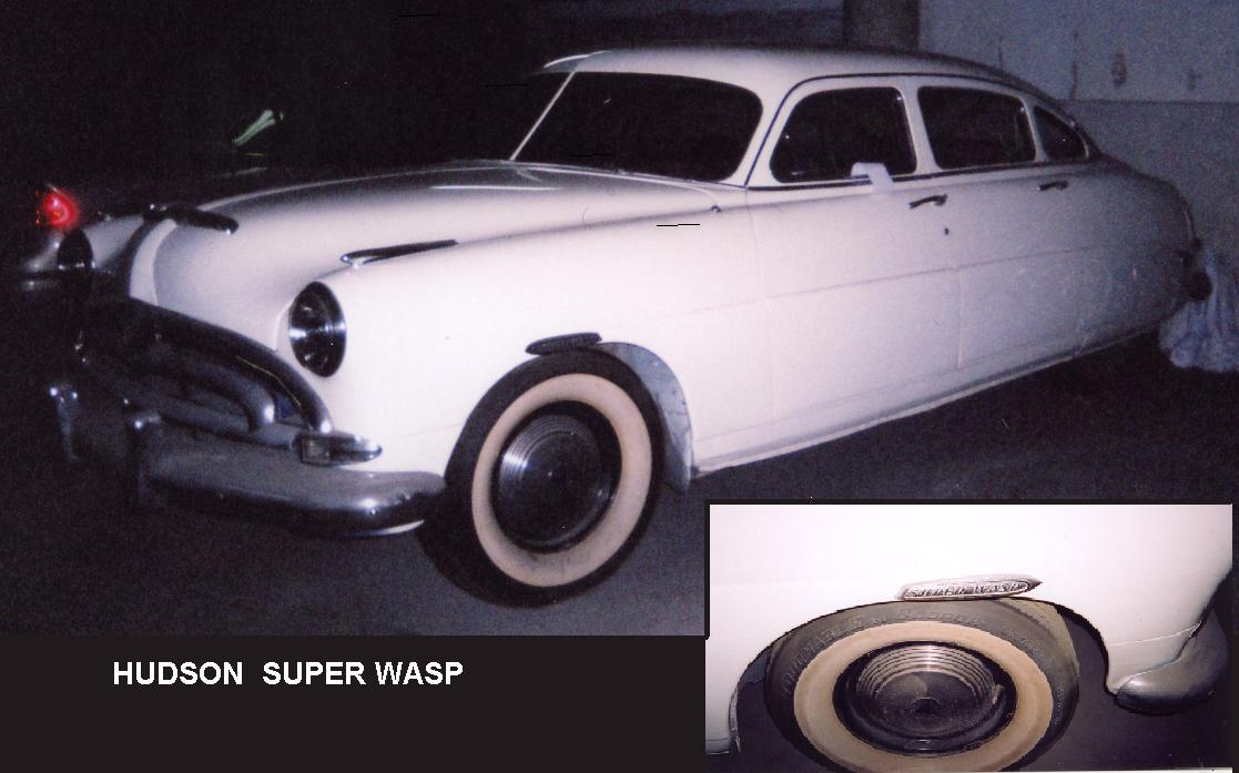 1953 Hudson Super Wasp 4 door Sedan photographed in the indoor garage of my building